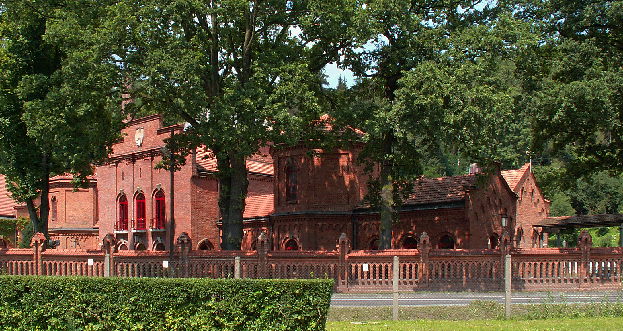 Municipal water supply plant (1899 design. by Roman Kajetan Ingarden), 299 Ksiecia Jozefa street, Bielany, Kraków, Poland